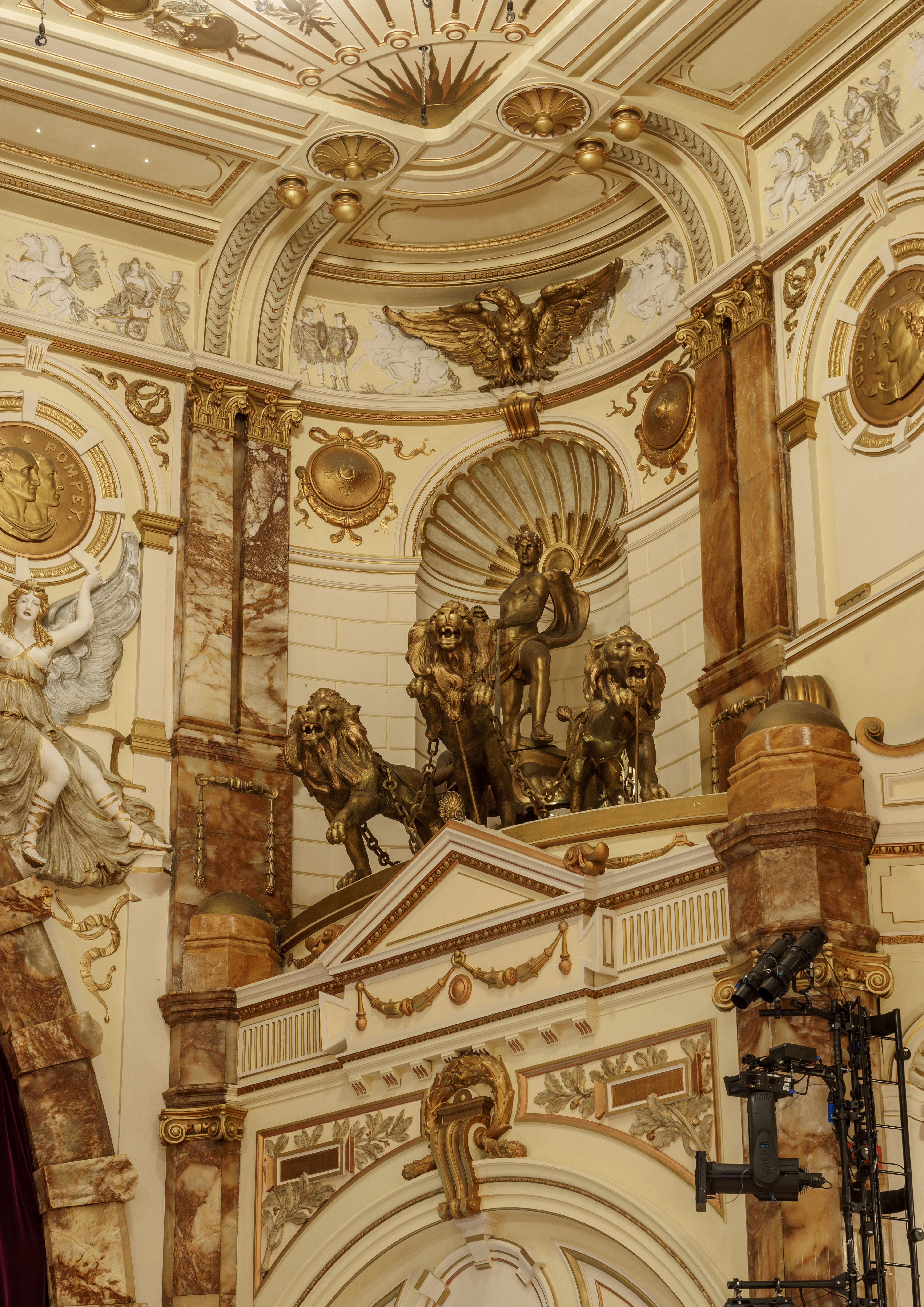 London Coliseum auditorium Wikidata has entry Q1868965 with data related to this item.